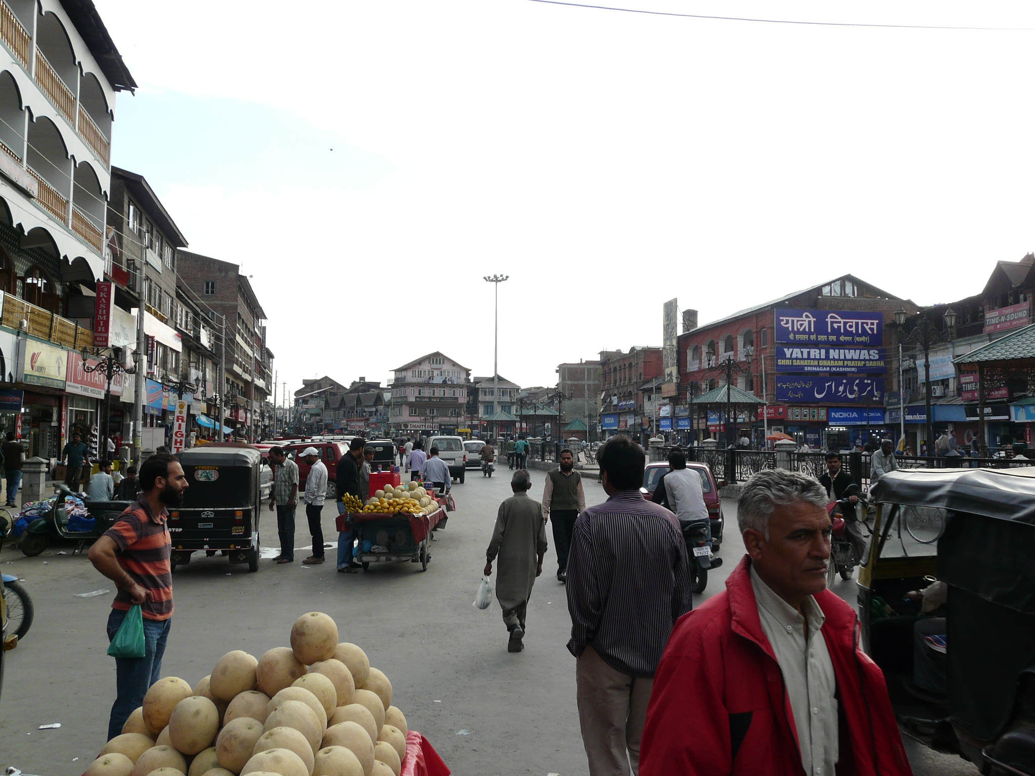 Lal Chowk (Red Square) in Srinagar